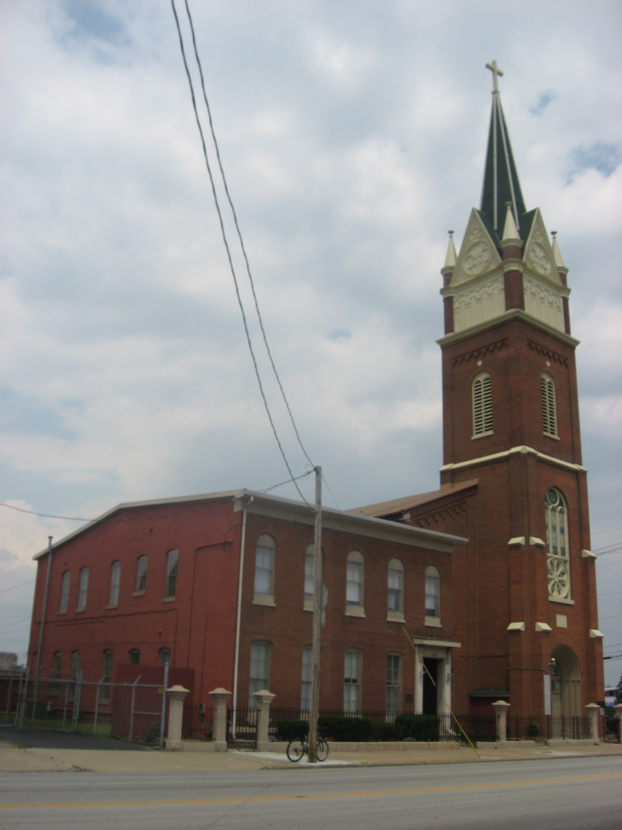 Front and western side of St. Patrick's Catholic Church, located at 1301-1305 W. Market Street (U.S. Route 31) in Louisville, Kentucky, United States. Built in 1853, St. Patrick's was the first North American parish to host a chapter of the Society of Saint Vincent de Paul. The two are listed together on the National Register of Historic Places.